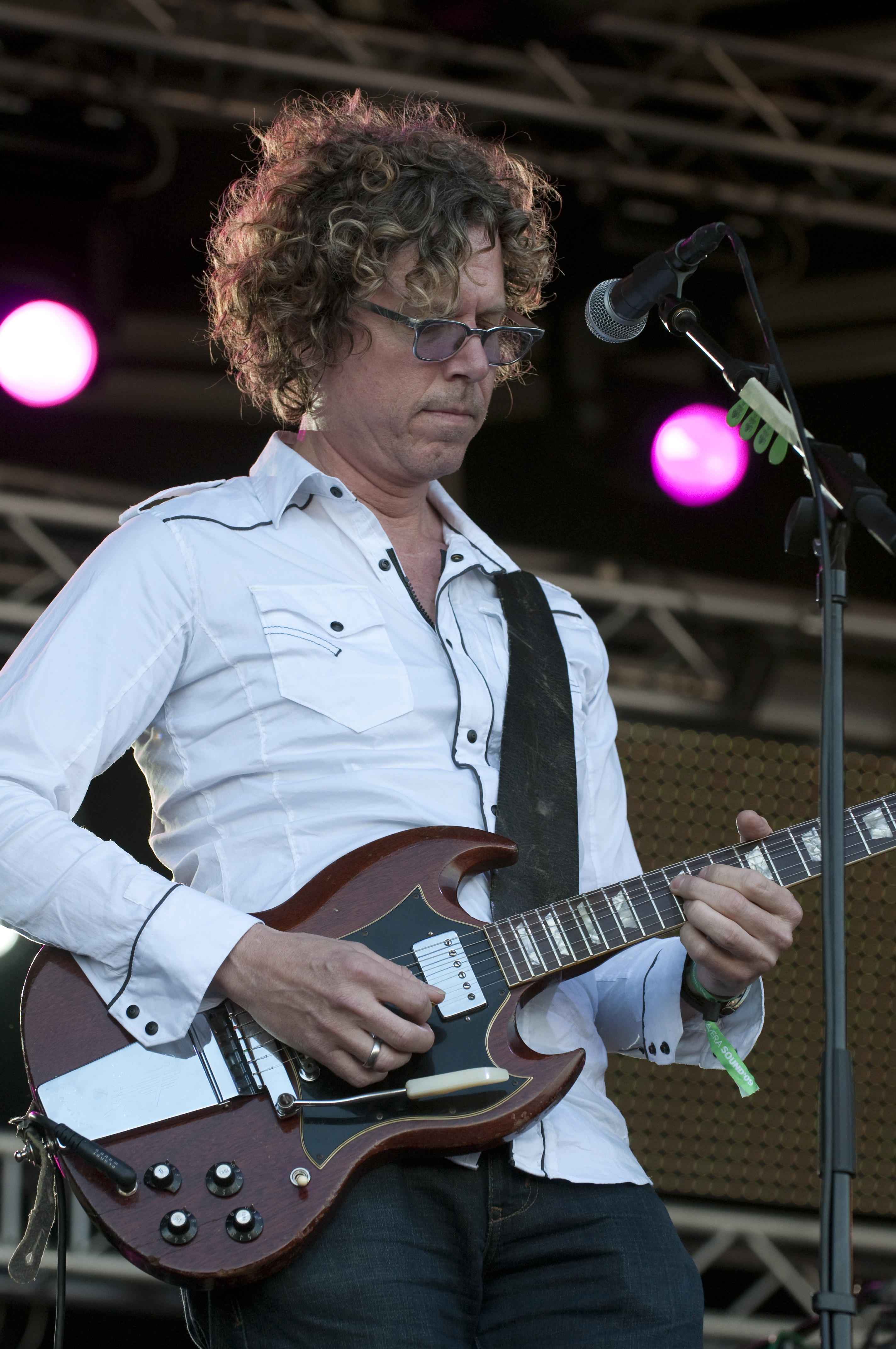 The Jayhawks